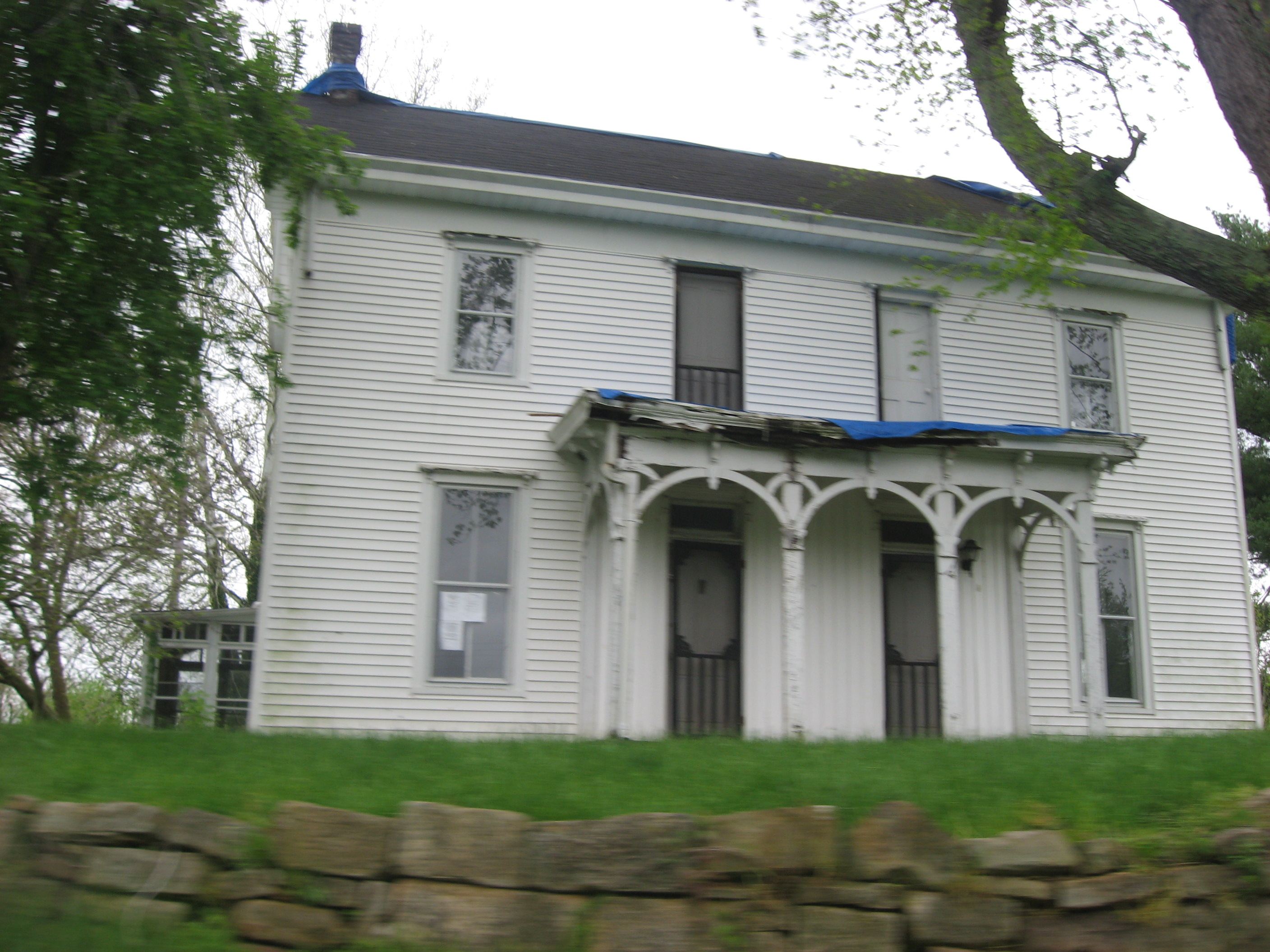 House on the western side of County Road 375E at Valeene in Southeast Township, Orange County, Indiana, United States.